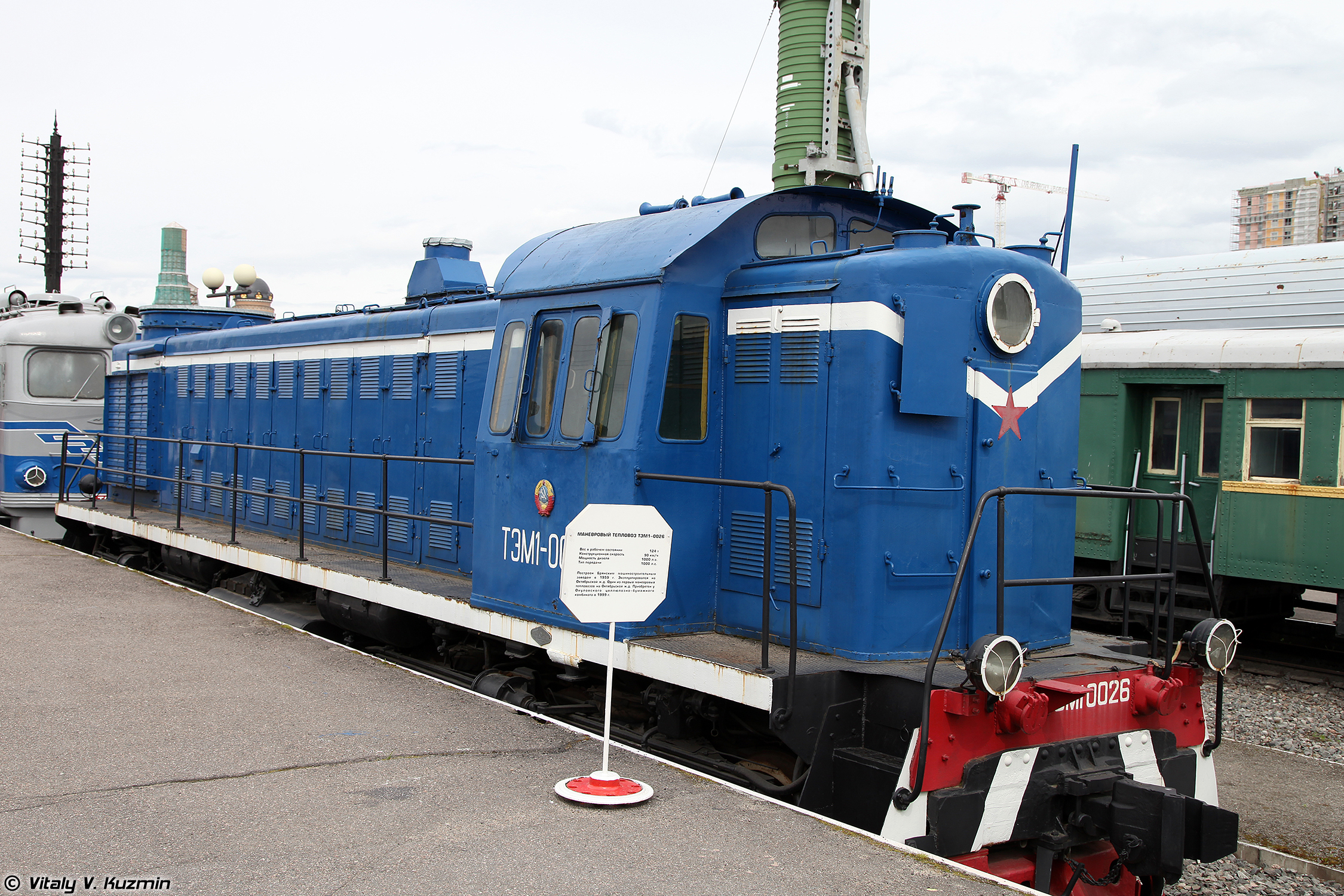 TEM1-0026 diesel locomotive